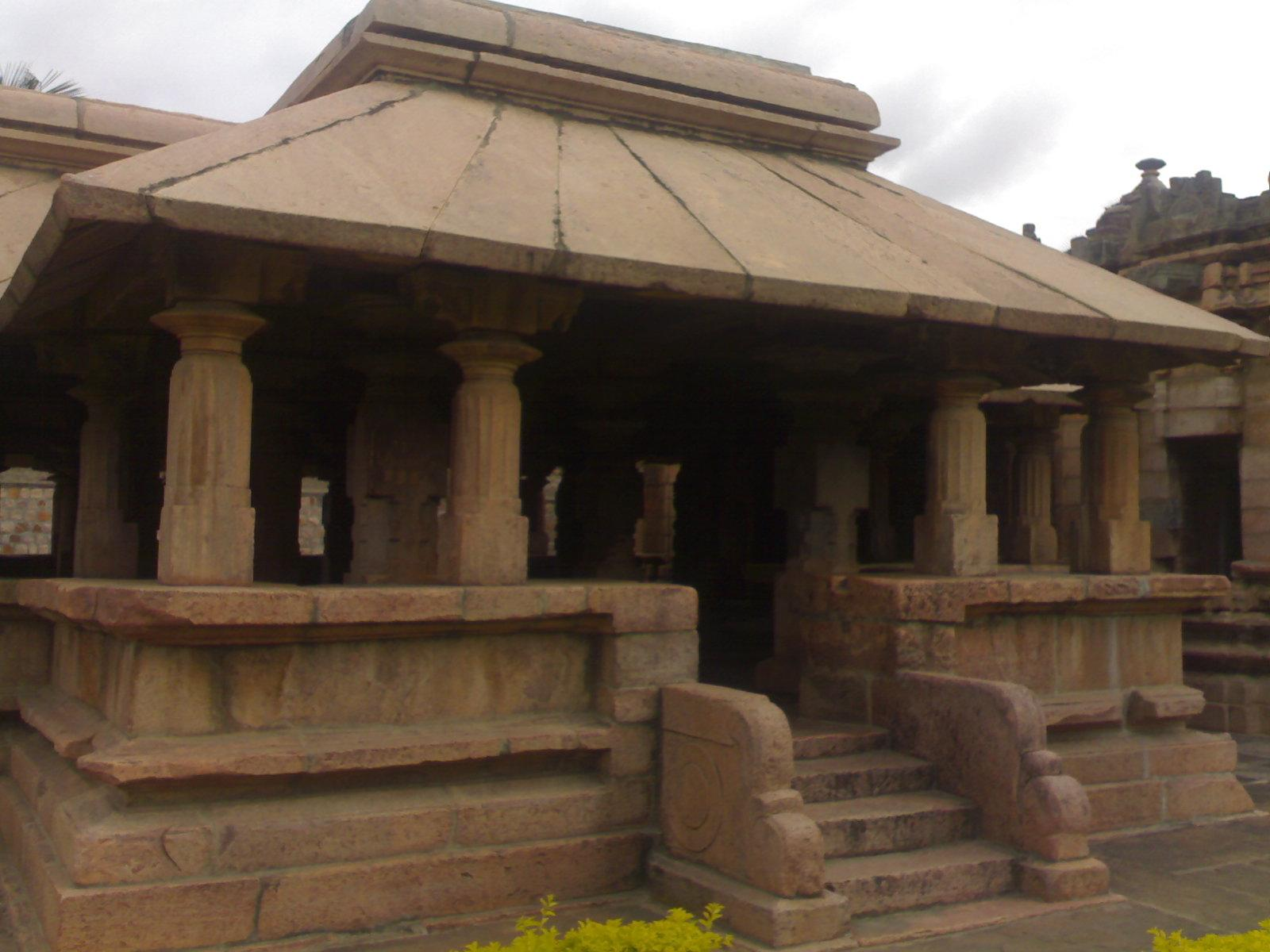 Hooli Panchalingeshwara temple Source and Author : Manjunath Doddamani, Gajendragad / Hubli, Karnataka(North), India